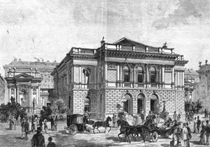 Künstlerhaus, 1883 August Kronstein (Künstlerhaus Archiv) © Künstlerhaus Archiv